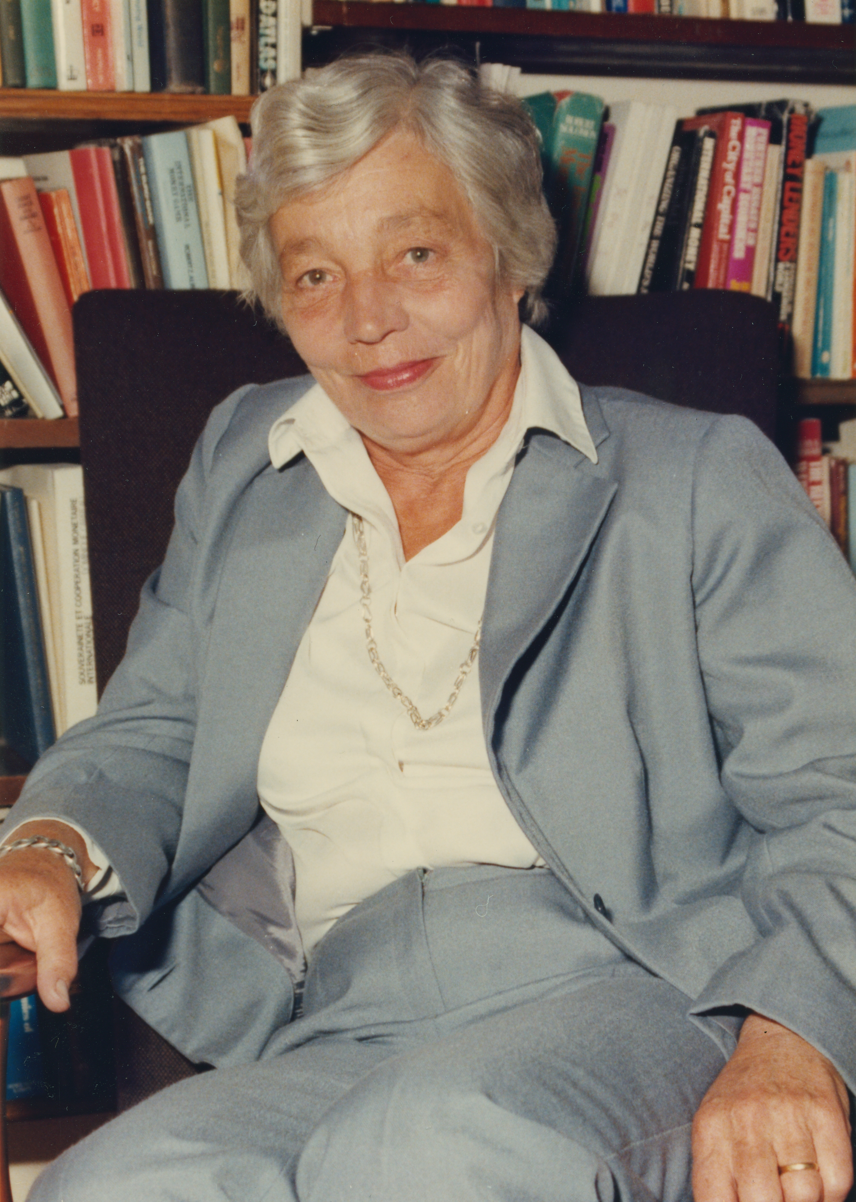 Susan Strange, Montague Burton Professor of International Relations. 1978-1998 IMAGELIBRARY/1008 Persistent URL